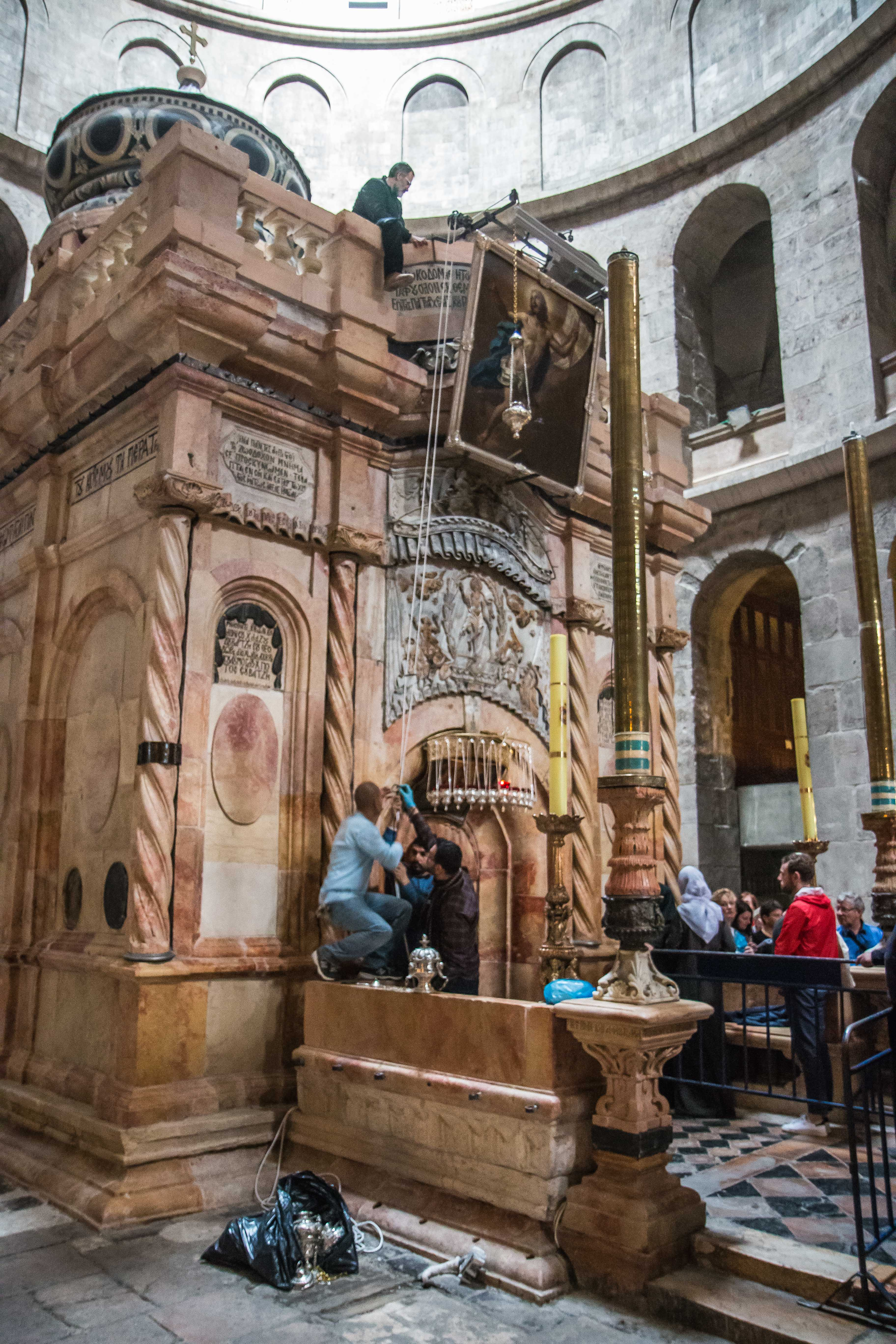 Images taken while in Jerusalem talking at TBEX International Conference March 2017